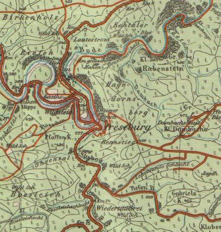 Map of Treseburg in the Bode Gorge, Harz mountains, Germany